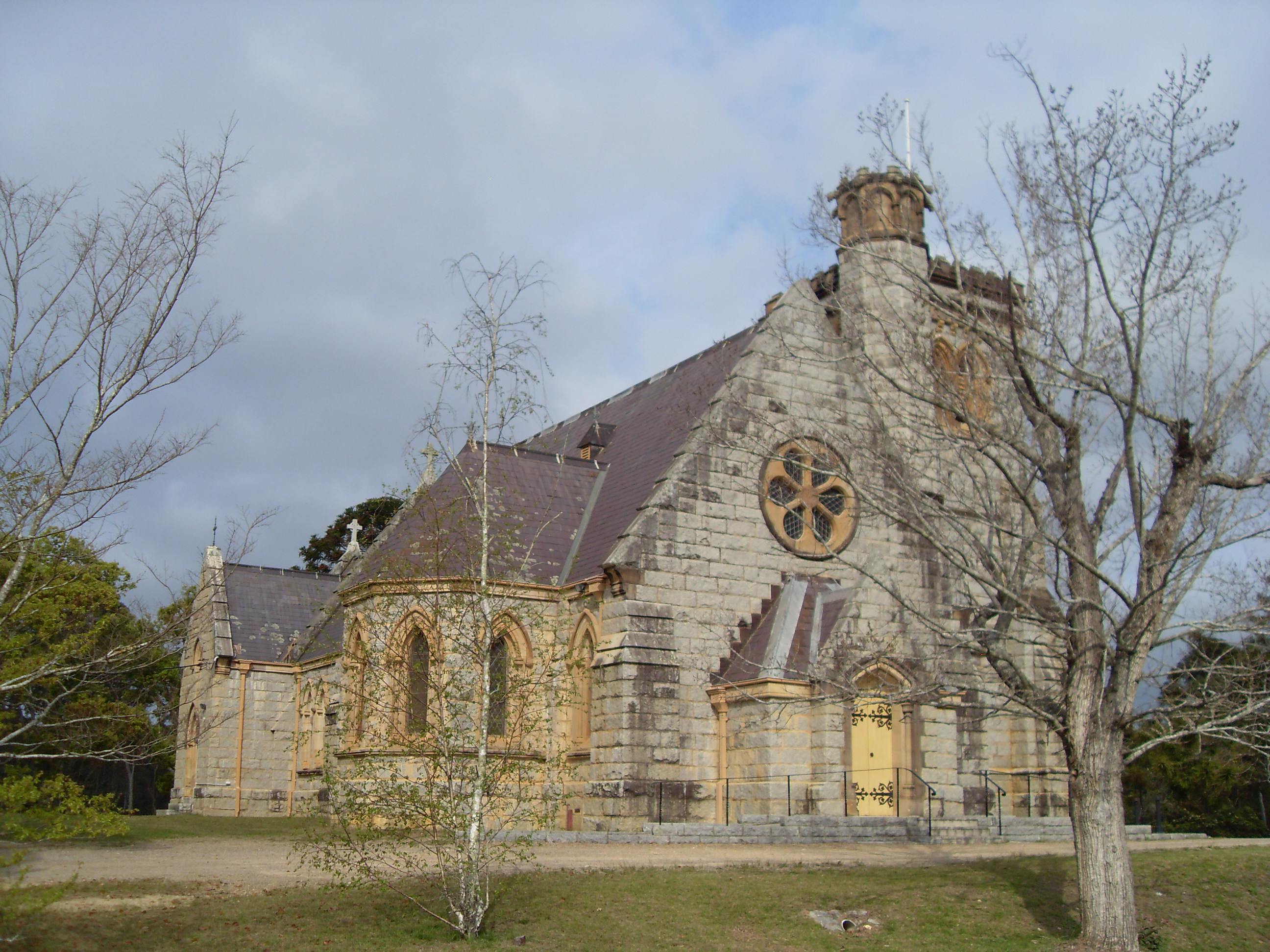 All Saints Church, Bodalla, commorating Thomas Sutcliffe Mort and his wife Theresa Shepheard Mort. It was designed by Edmund Blacket. The foundation stone was laid by Marianne Mort, Thomas' second wife, on 18 March 1880. It was completed in 1901. The church has one of seven small Henry Willis & Sons organs, built in 1881 nd installed the following year. The church cost 13,000 Pounds Stirling to construct.